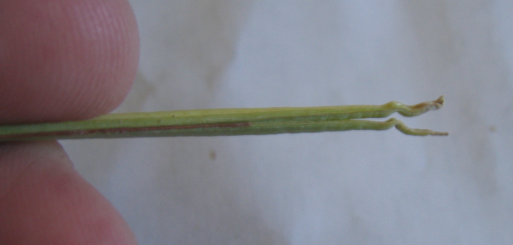 Split middle leaf of the lulav, used in Jewish ritual worship